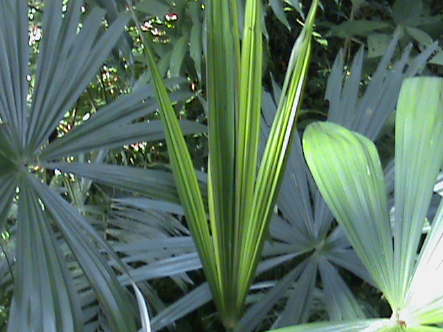 Chryosophilla williansii